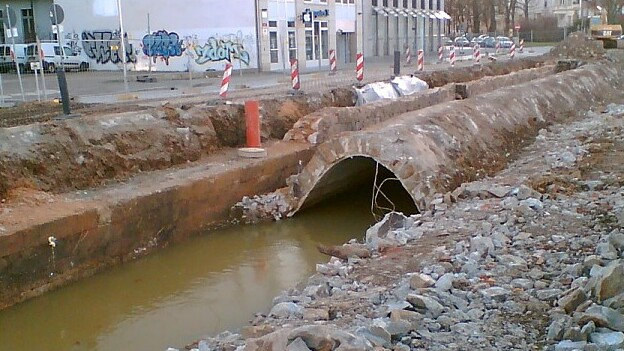 Leipzig: Expose of the Pleisse millrace on the Lampestrasse corner Riemannstrasse